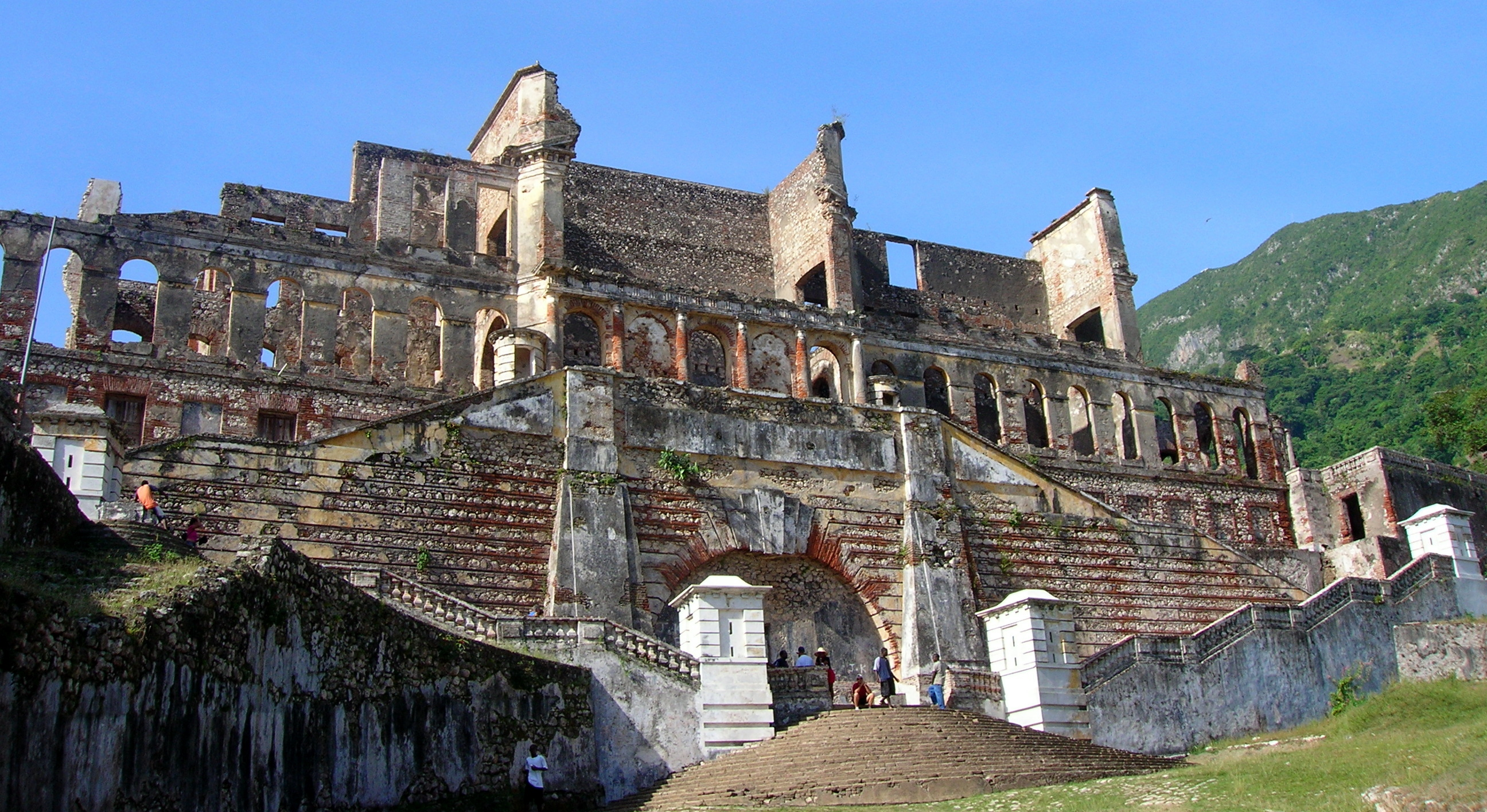 The front of the Sans-Souci palace, in Milot, Haiti.